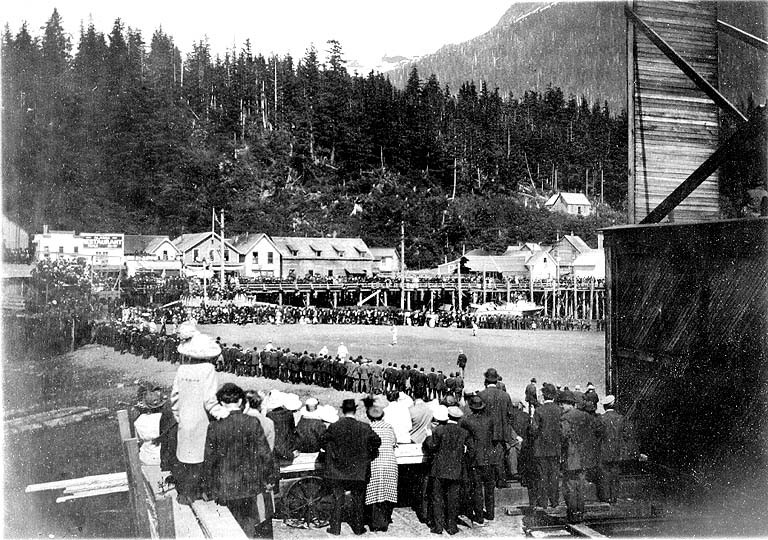 On verso of image: Ballground at Ketchikan . In Folder 18 Subjects (LCTGM): Baseball--Alaska--Ketchikan; Crowds--Alaska--Ketchikan Subjects (LCSH): Baseball fields--Alaska--Ketchikan